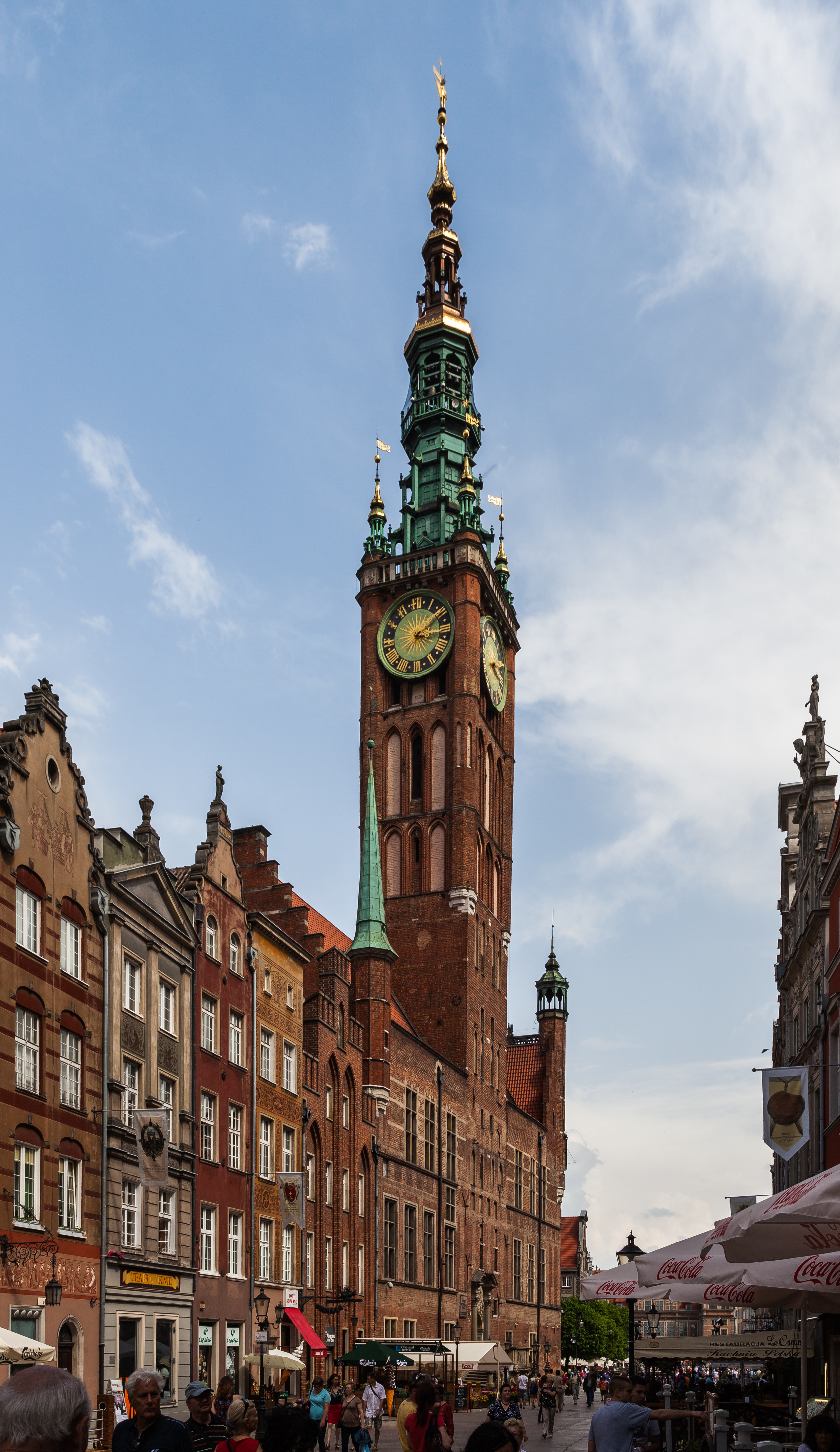 Main Town Hall, Gdansk, Poland